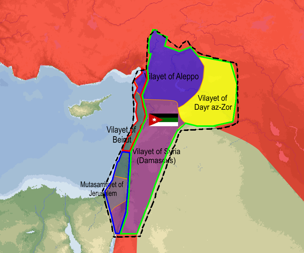 Faisal ephemeral "KINGDOM of SYRIA"